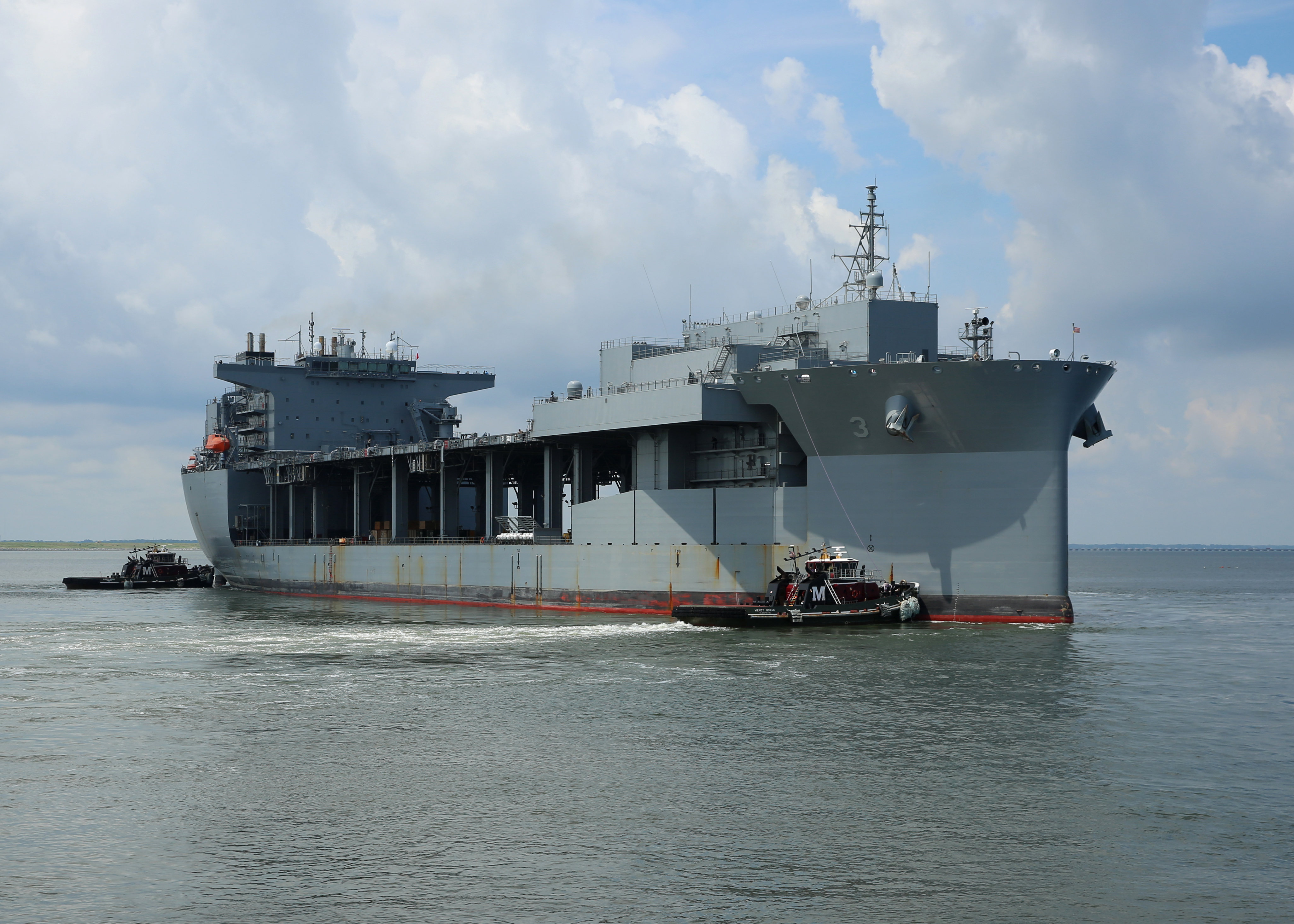 NORFOLK (July 10, 2017) The Military Sealift Command expeditionary mobile base USNS Lewis B. Puller (T-ESB 3) departs Naval Station Norfolk to begin its first operational deployment. Puller is deploying to the U.S. 5th Fleet area of operations in support of U.S. Navy and allied military efforts in the region. (U.S. Navy photo by Bill Mesta/Released)170710-N-OH262-448 Join the conversation: navylive.dodlive.mil